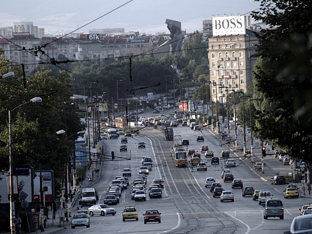 "Cherni Vruh" Blvs in Sofia, Bulgaria